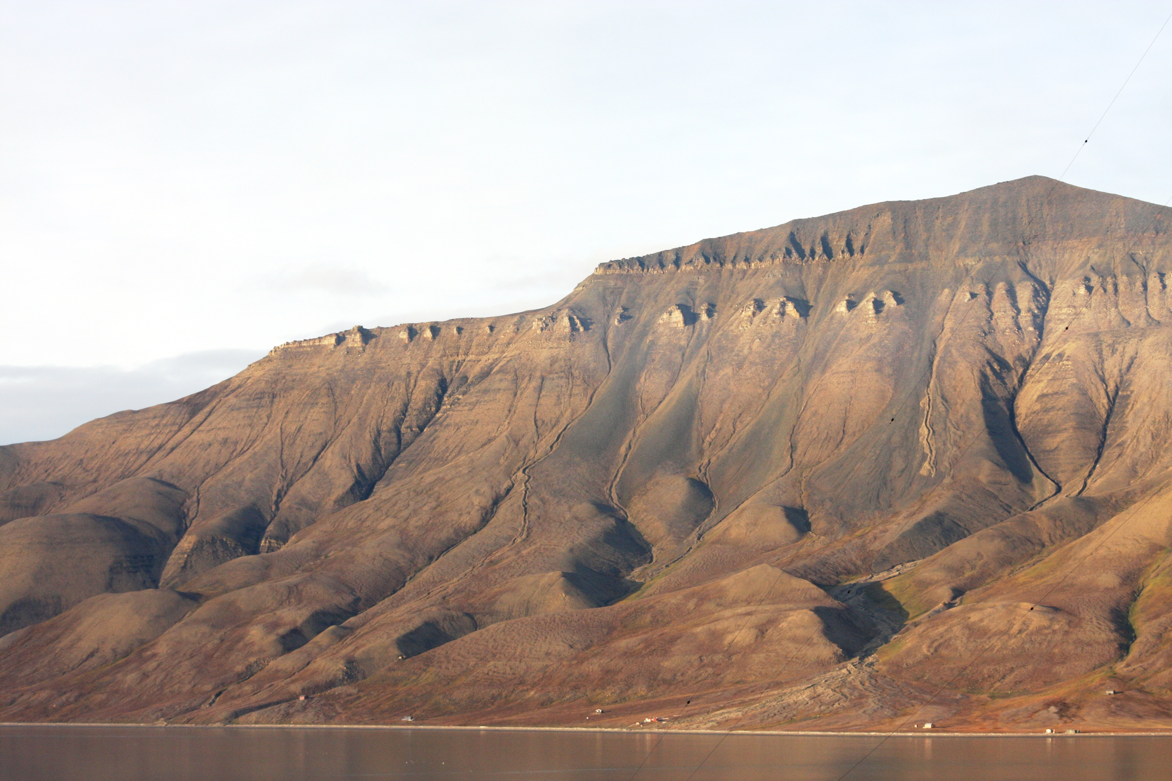 Mountain along the fjord Adventfjorden near Longyearbyen, Nordenskiöld Land (Svalbard)